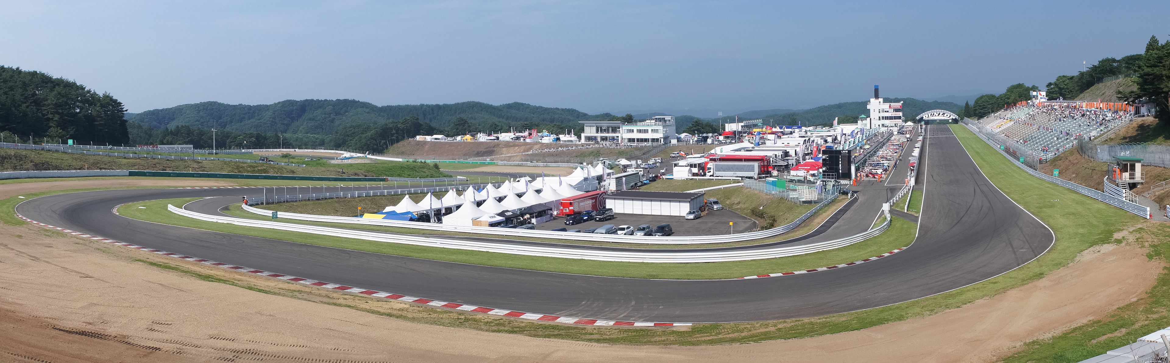 Super GT 2012 Rd.4 SUGO GT 300km: 1st section of the circuit